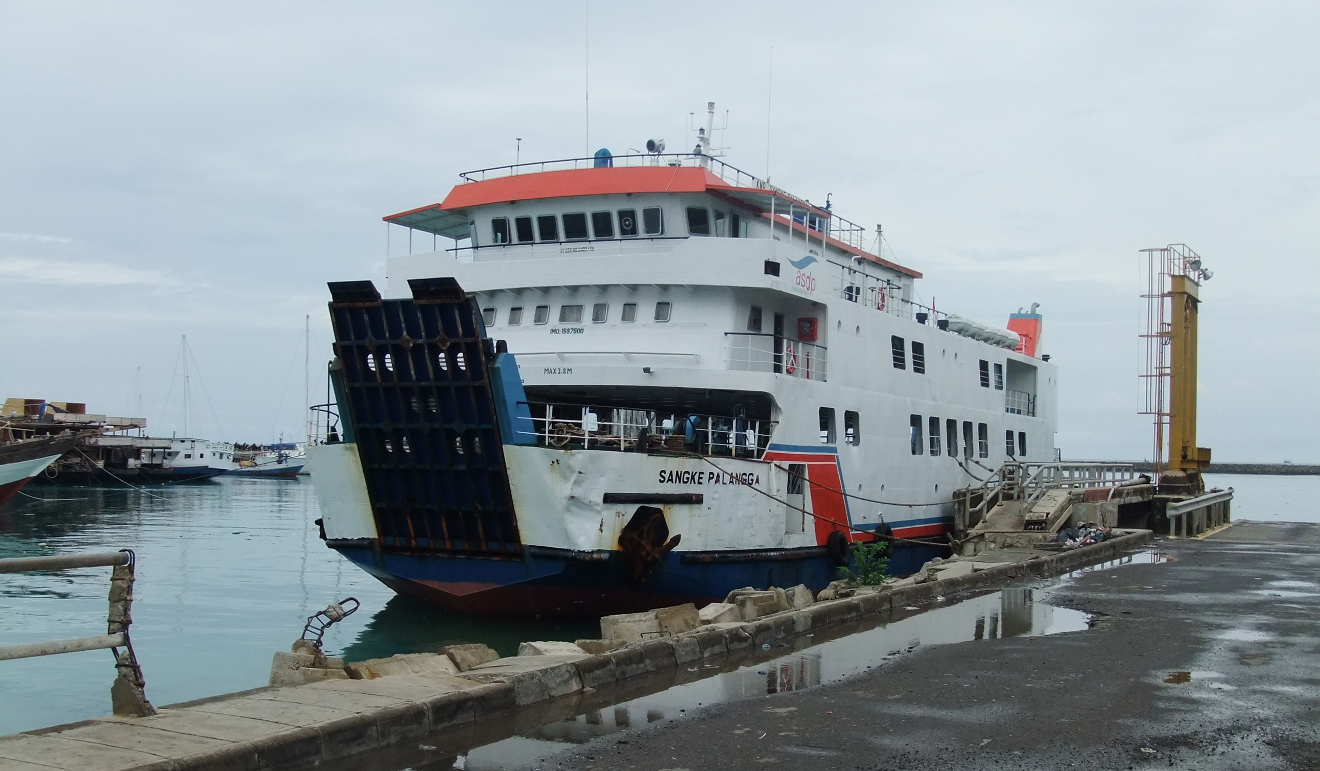 KM Sangke Palangga, ferry connecting Bulukumba-Selayar Island